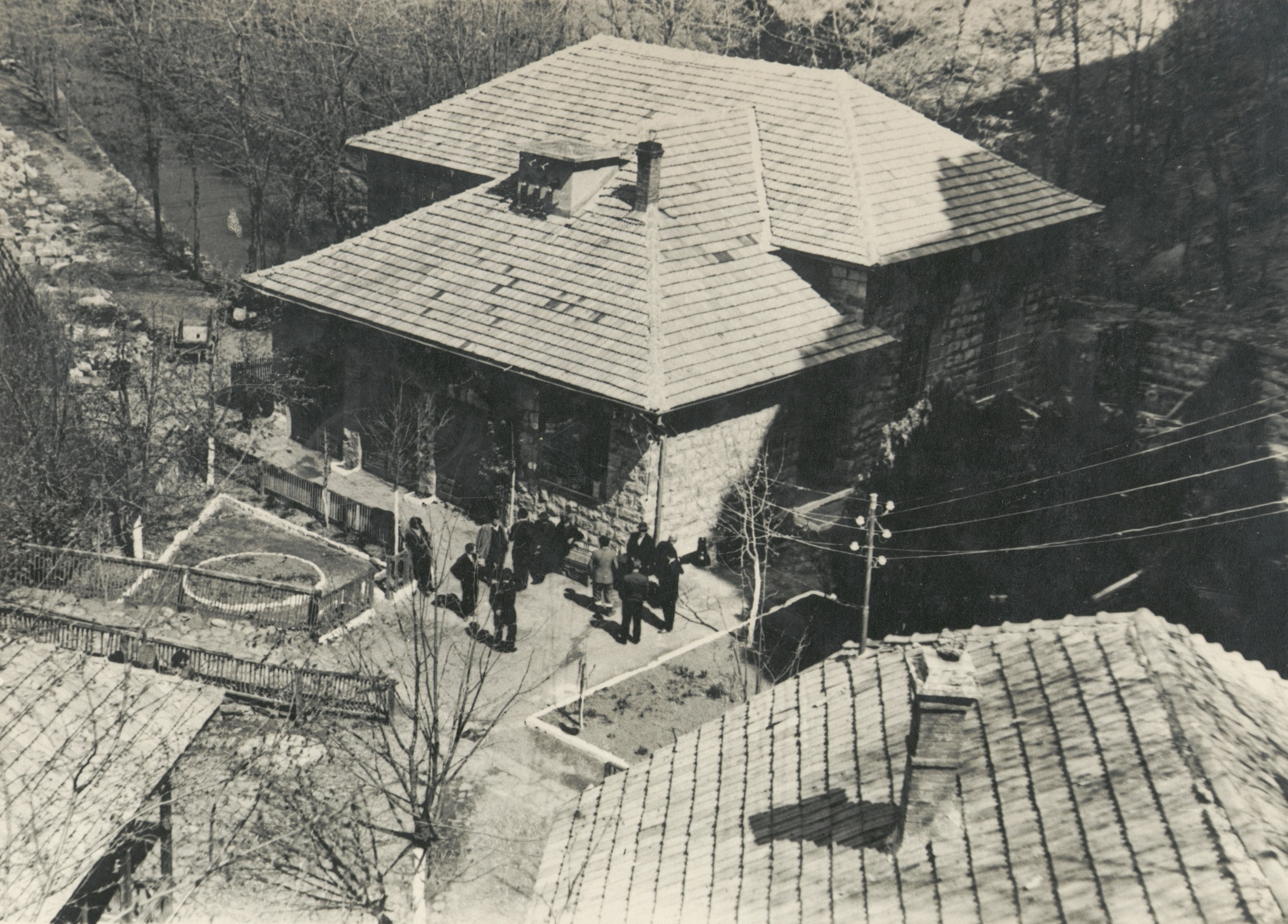 HPP Temac, machine hall.